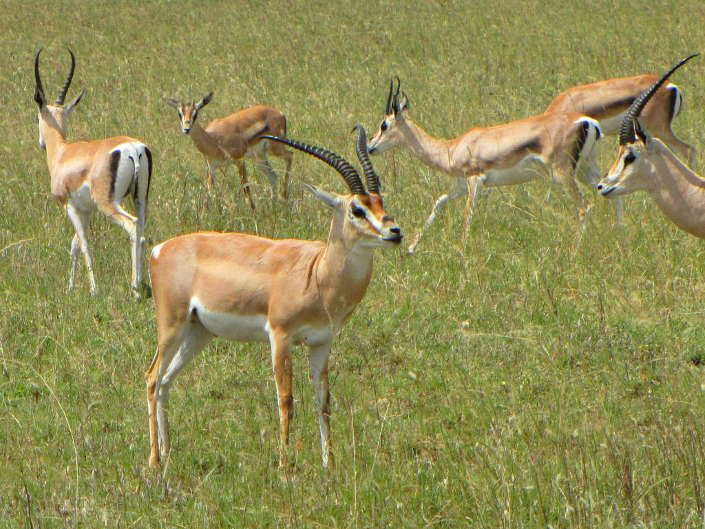 Grant's Gazelles (Nanger granti), Serengeti National Park, Tanzania